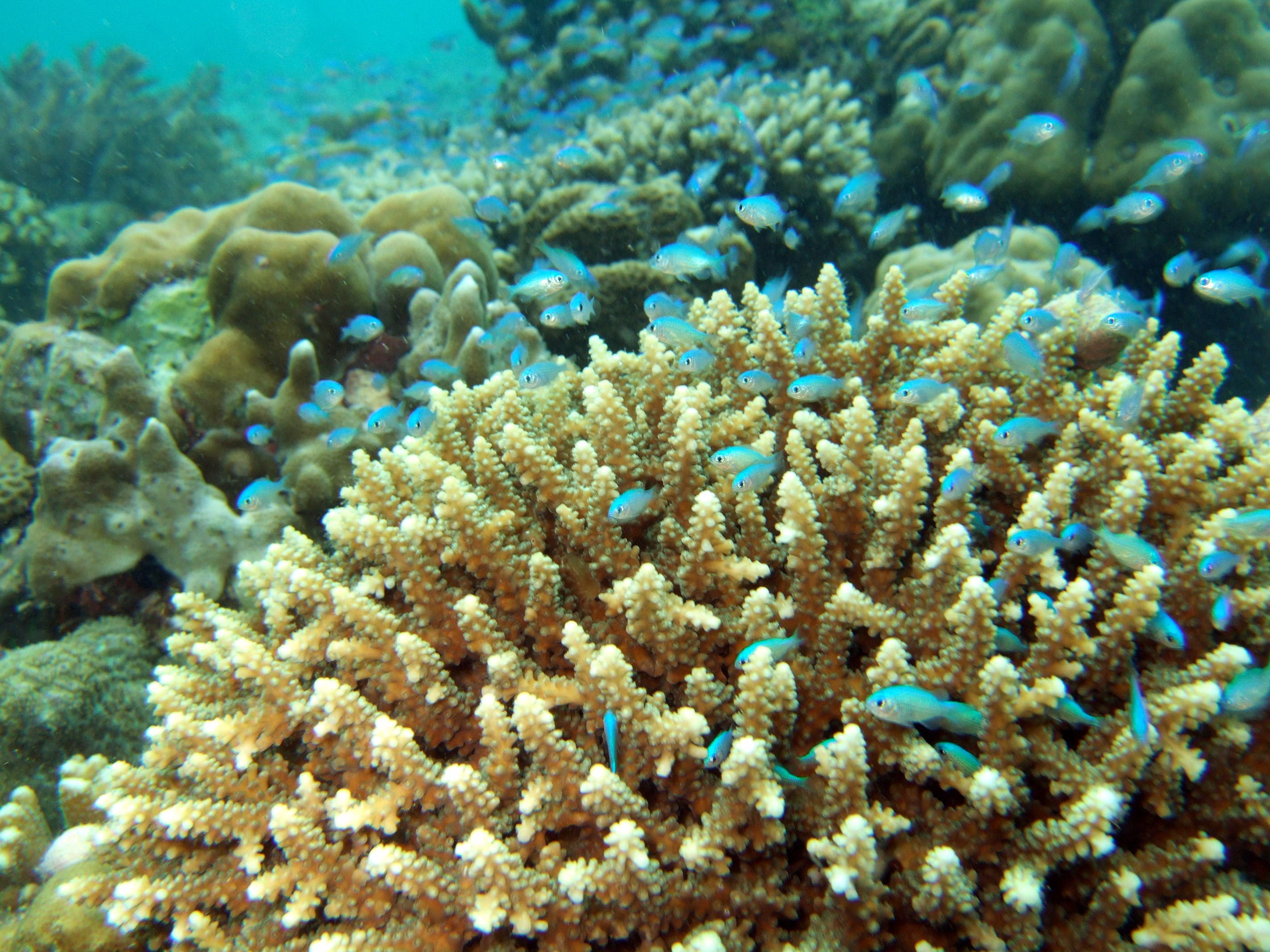 Underwater at Moalboal, Cebu, Philippines